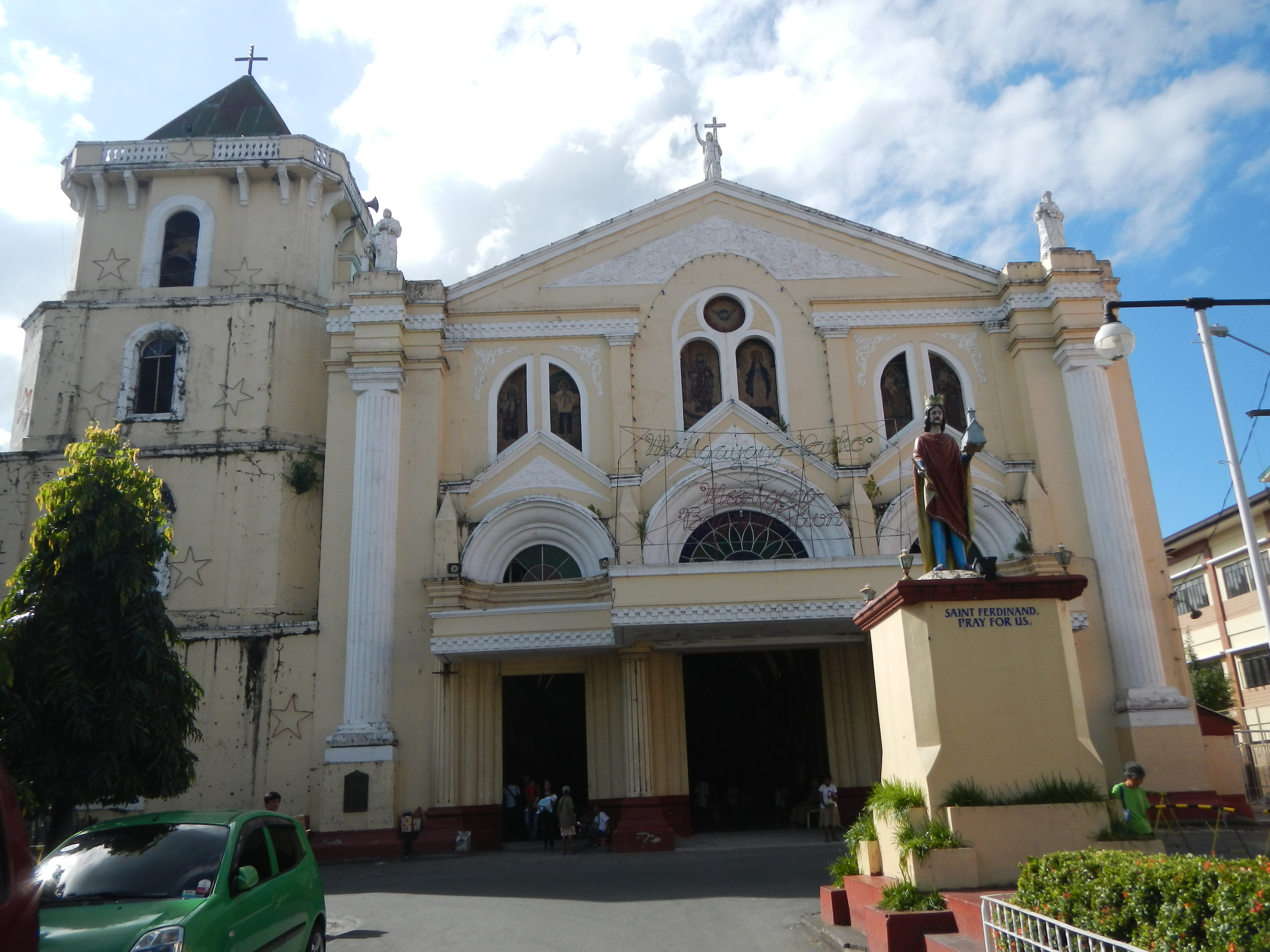 Upload Wizard -- (general description of landmarks, town, church) - of Lucena, Philippines [1] City Proper - Commercial Centre, in the center is the Heritage - Saint Ferdinand Cathedral, in Barangay V which belongs to the Roman Catholic Diocese of Lucena inside it is the Maryhill College (MC) (formerly Maryknoll Academy) Sacred Heart College (SHC), the Welcome Arch of the Cathedral, beside it is the NHI Marker of Lucena to Hacienda Inn and Heritage Ancestral Villa Perez who donated the lot to the Tayabas Capitol.